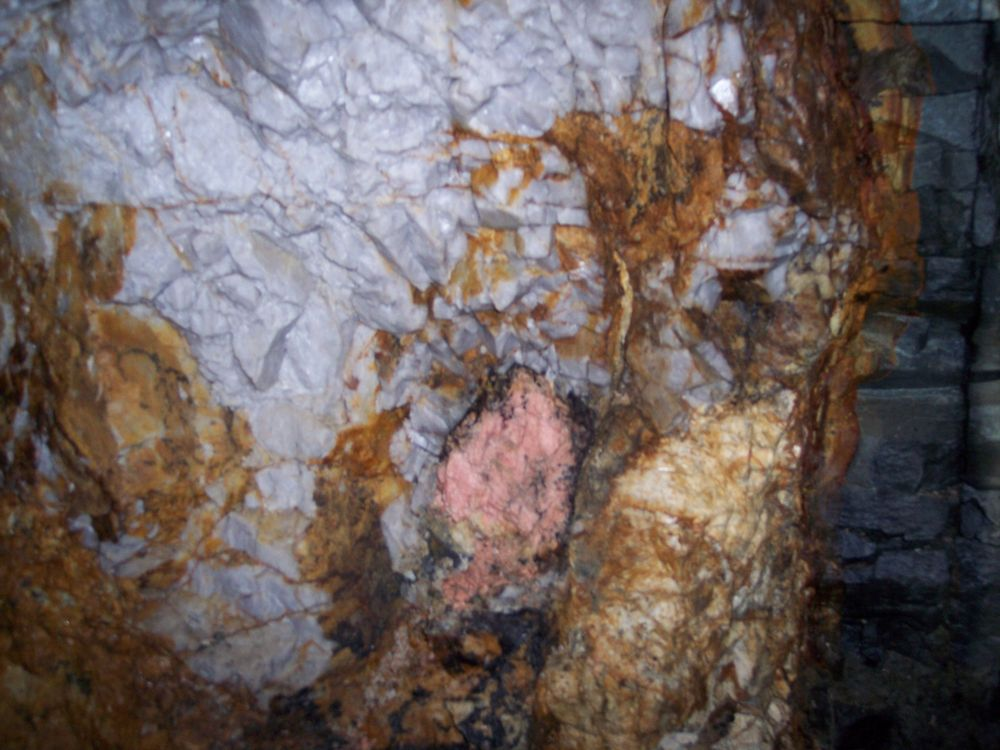 Triplite, Quarz and Albit Locality: Morefield Mine (Morefield Pegmatite), Winterham, Amelia County, Virginia, USA Original description: In situ: Six inch wide pink triplite encase in gray quartz 14" from the black diabase dike, next to cream color albite with brown iron staining all over the peg. Note the 2 to 3 inch wide tan color clay between the peg & dike. The first triplite of the 60' level with many more found towards the NE. Spring of 09